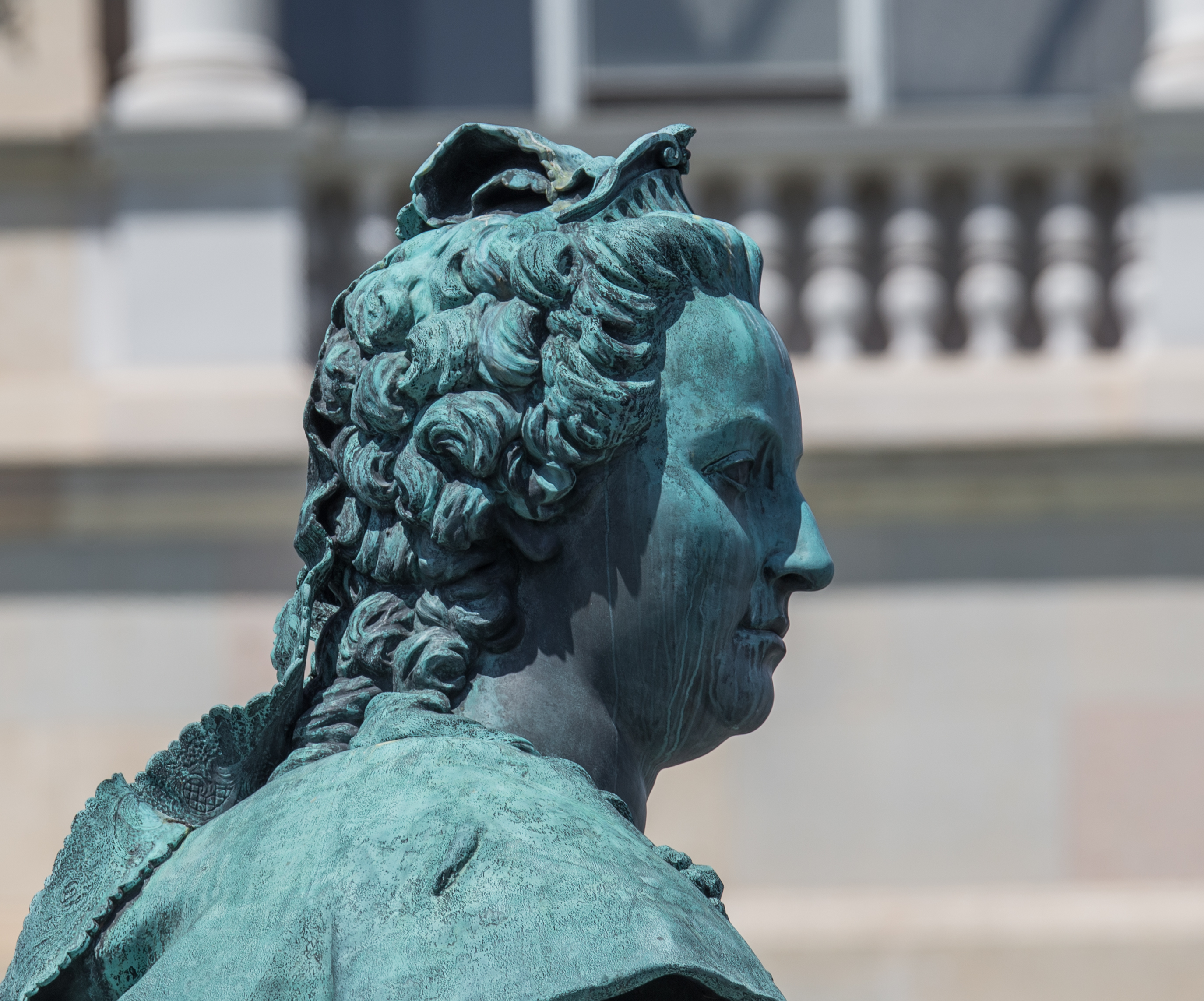 Maria-Theresia-square, Maria-Theresia monument, artist: Kaspar von Zumbusch (errected 1874-1888), main figure